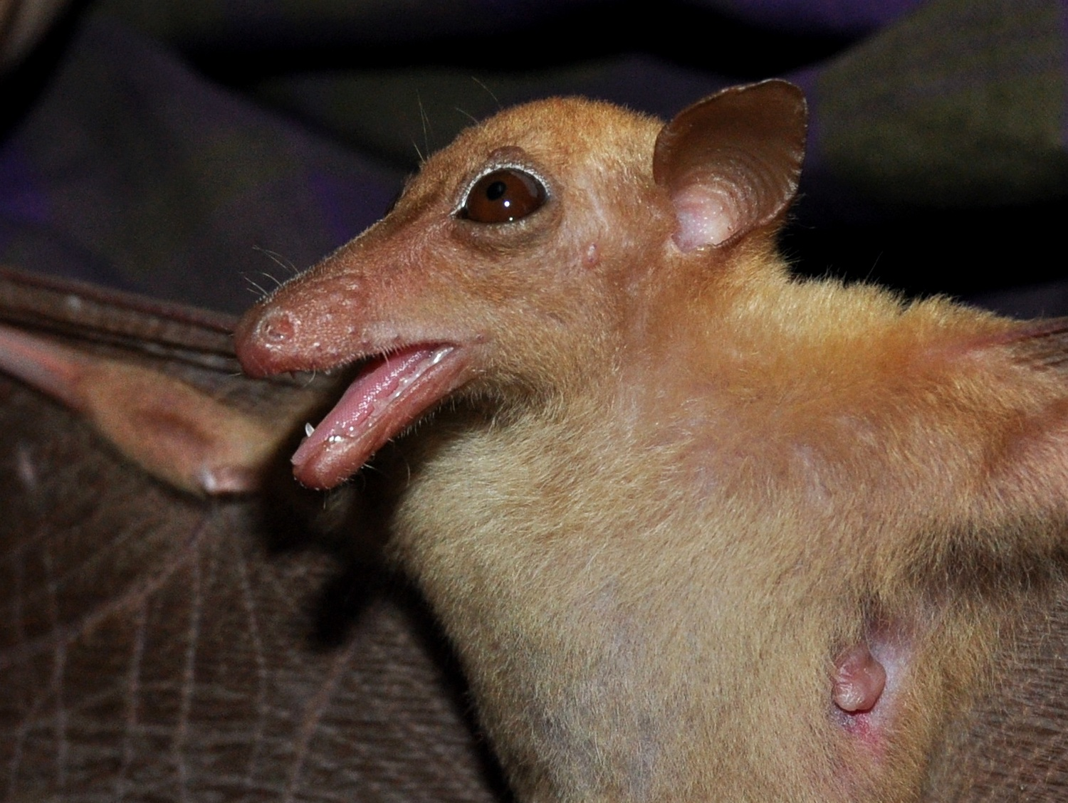 Greater long-tongued fruit bat (Macroglossus sobrinus), female, fore-arm 48 mm, from Darmaga, Bogor, West Java. Head and chest.